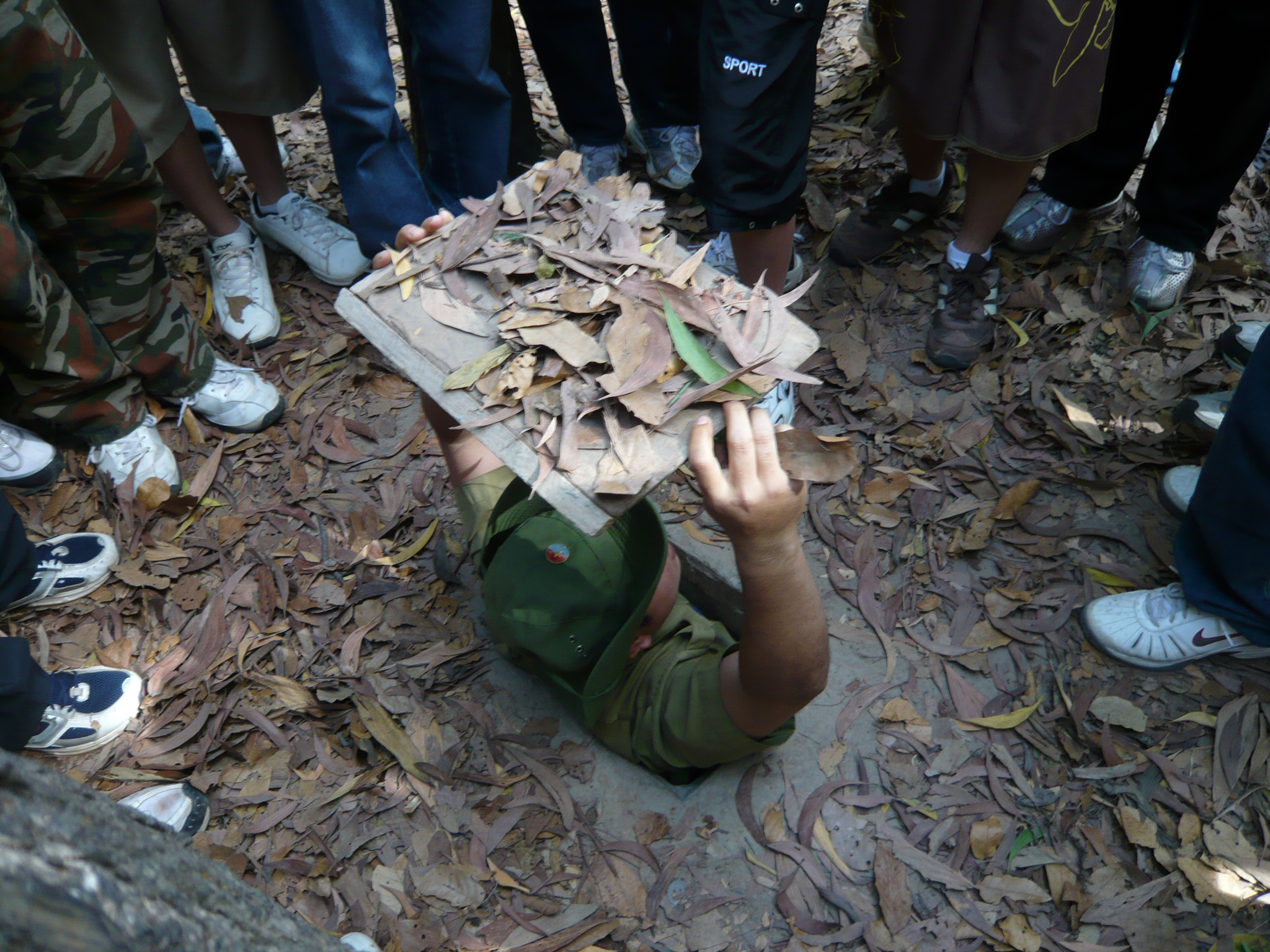 A local guide entering a tiny secret entrance, which can be easily camouflaged, at Cu Chi Tunnel.